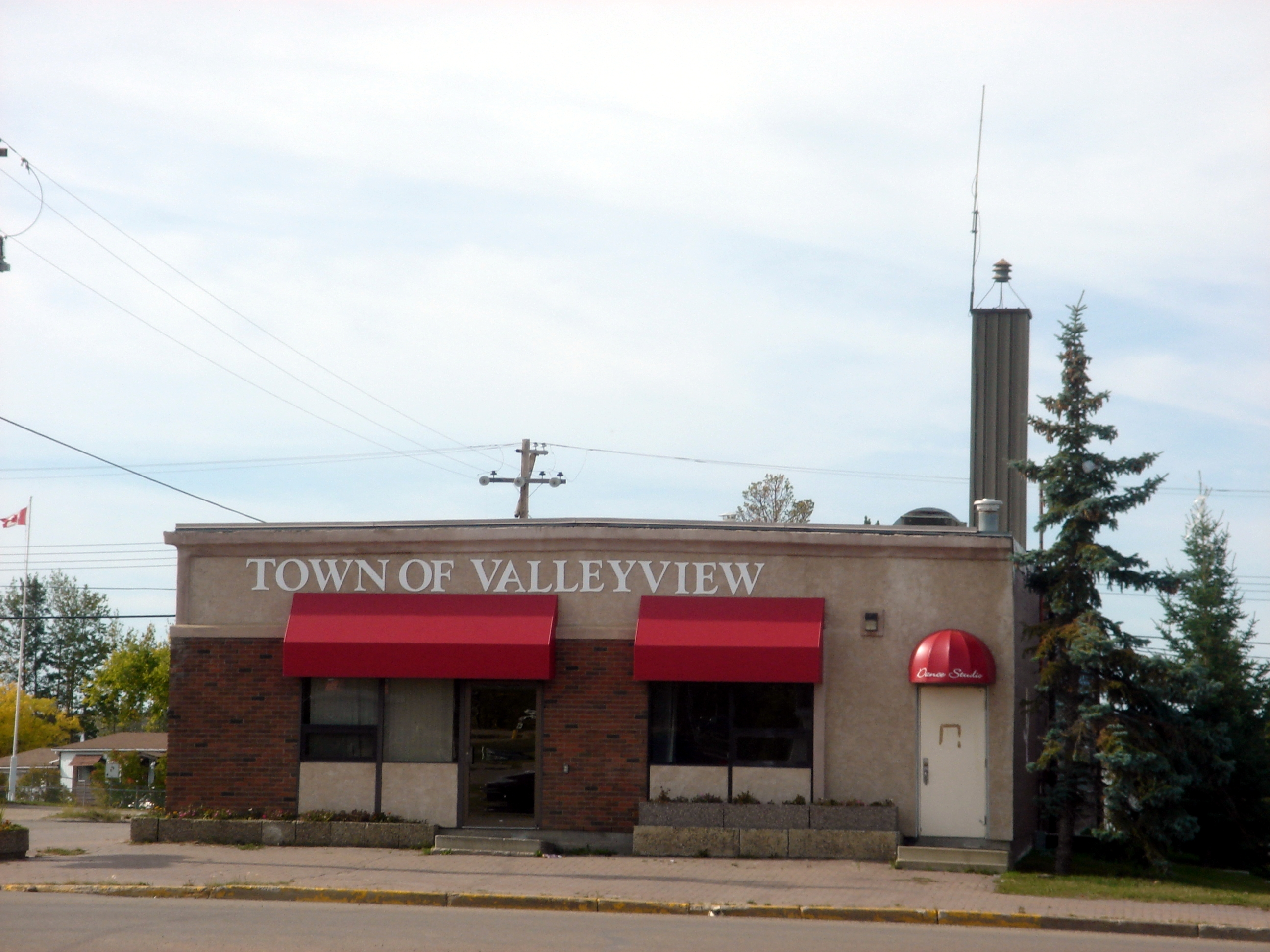 Towh hall of Valleyview, Alberta, Canada